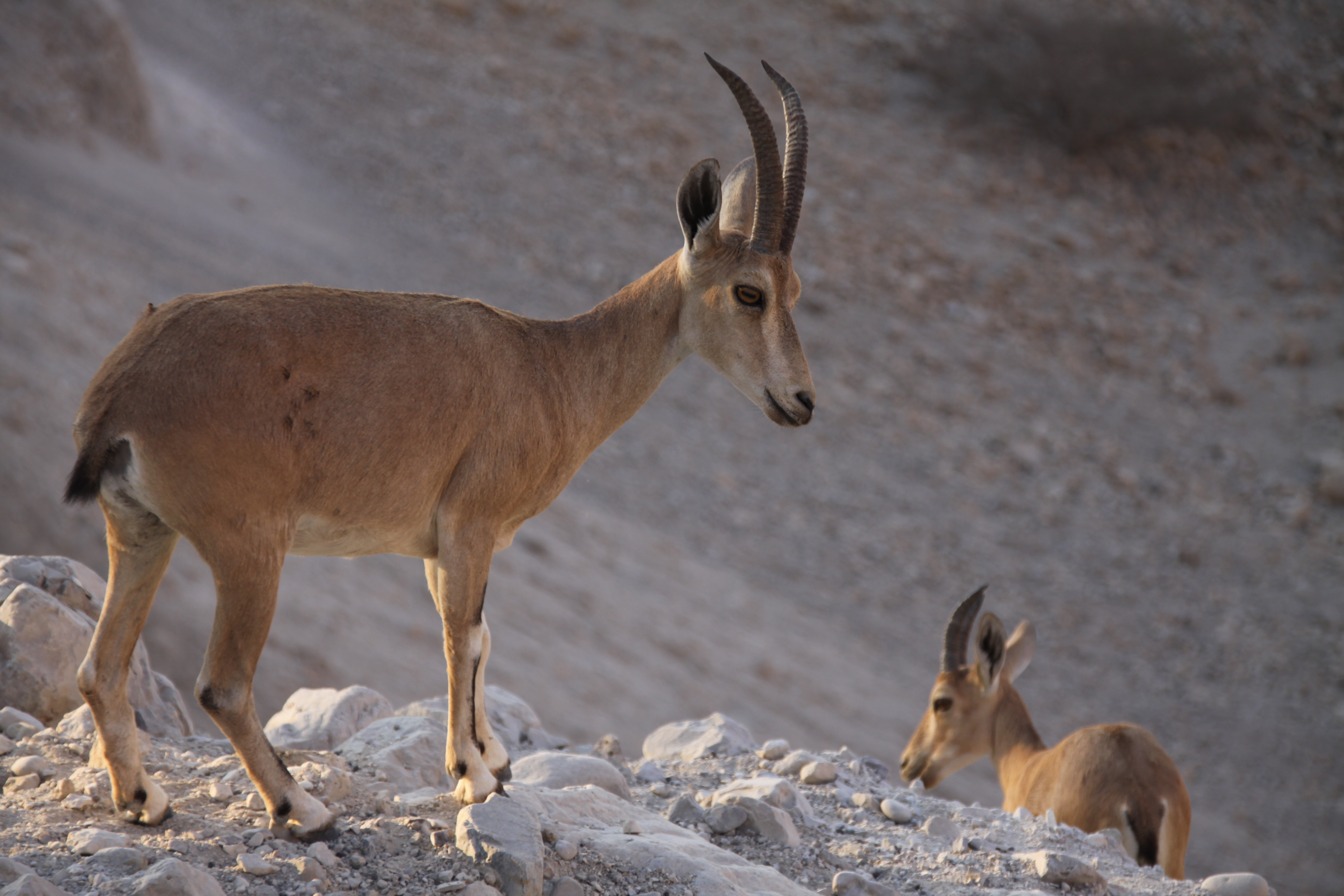 Two Nubian Ibexes, Ein Gedi nature reserve, The Judean desert, IsraelUnknown שני יעלים, ליד בית ספר שדה עין גדי, מדבר יהודה, ישראל